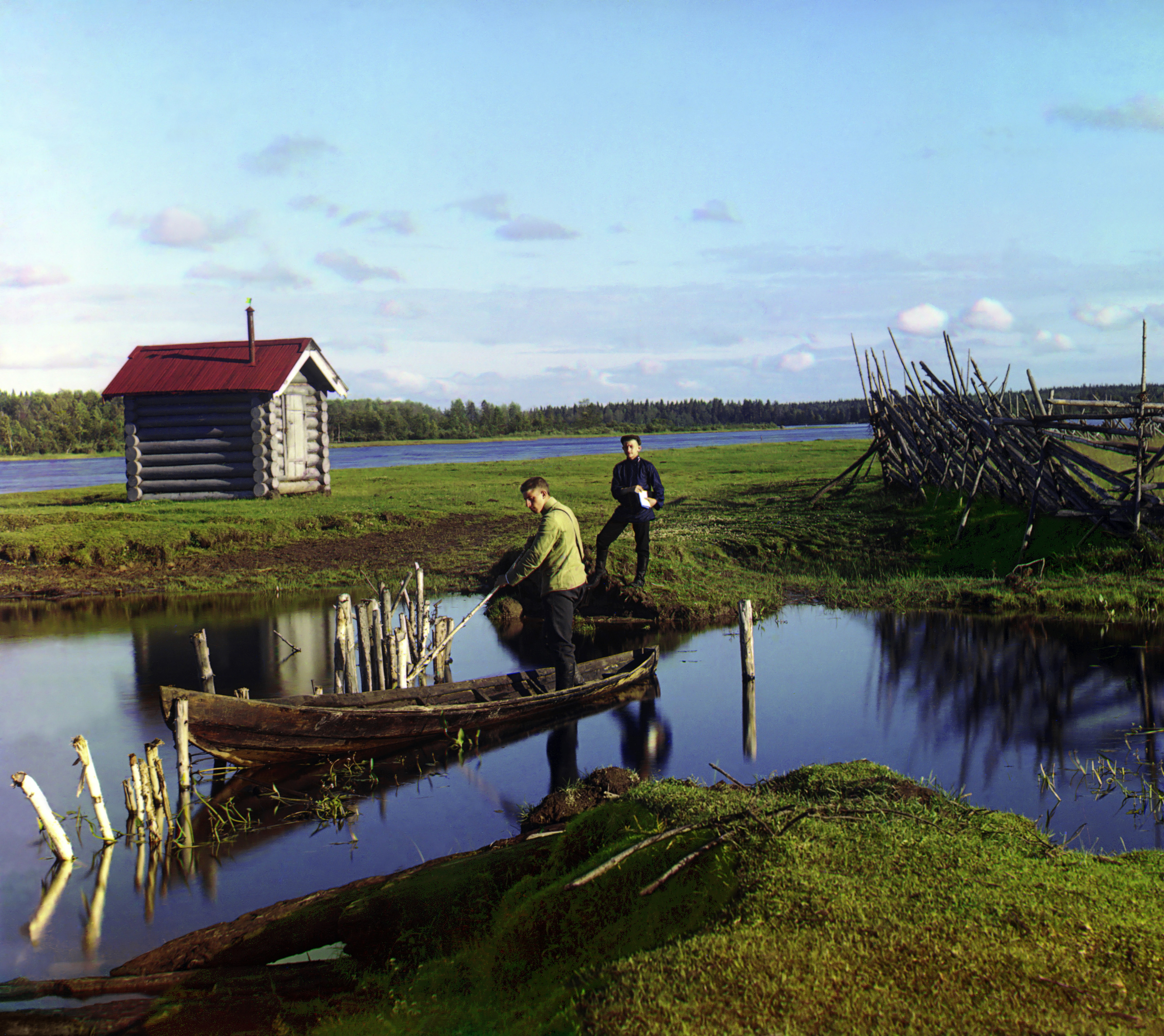 Original Description: Ostrechiny. Study. [Russian Empire]. Two people with a boat.